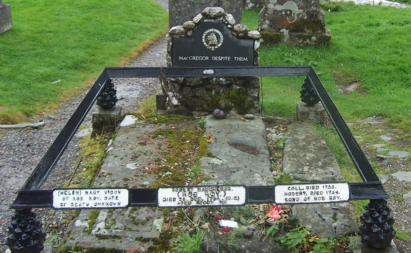 Grave of Rob Roy MacGregor, his widow and son.